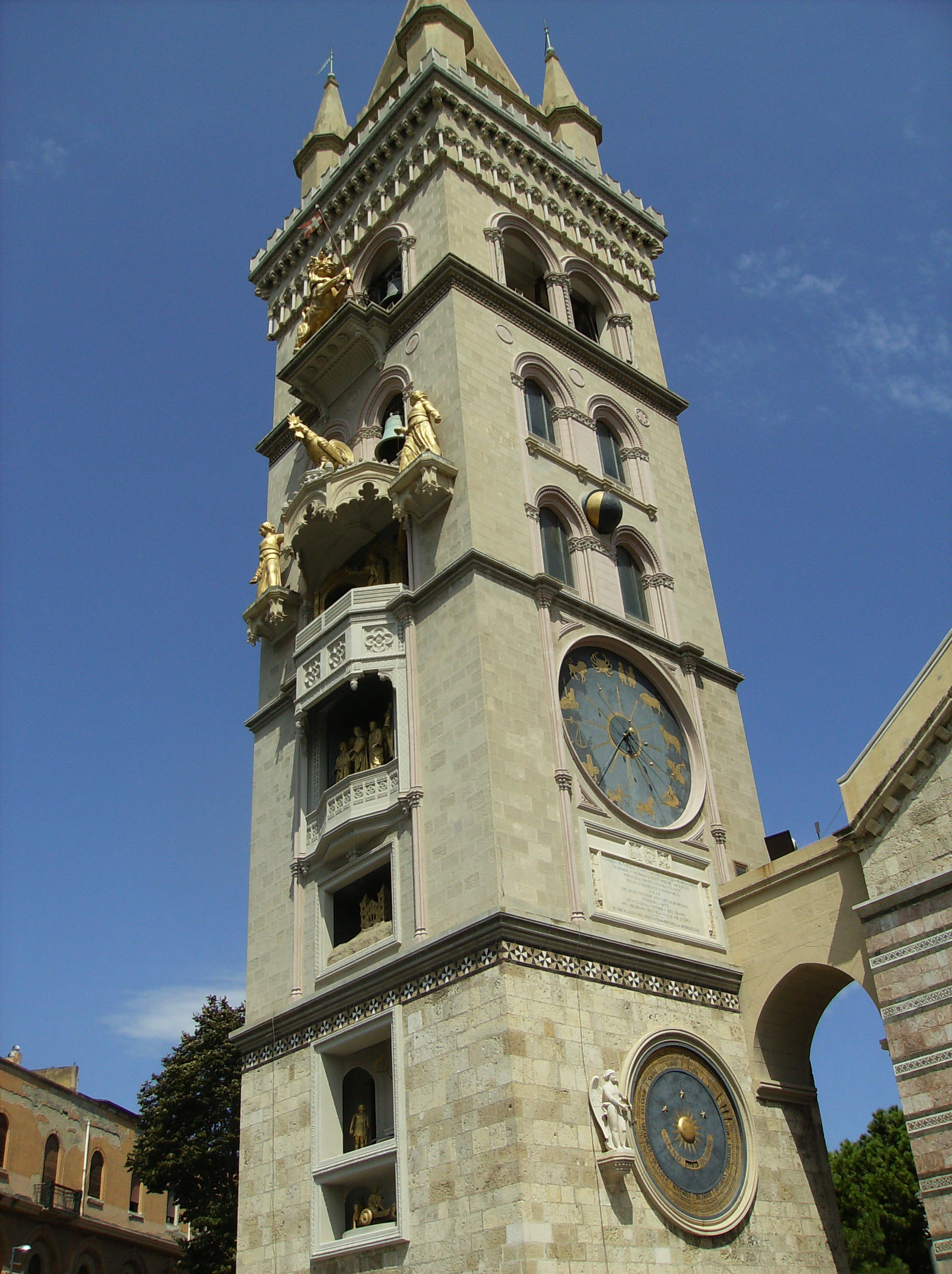 Messina duomo tower